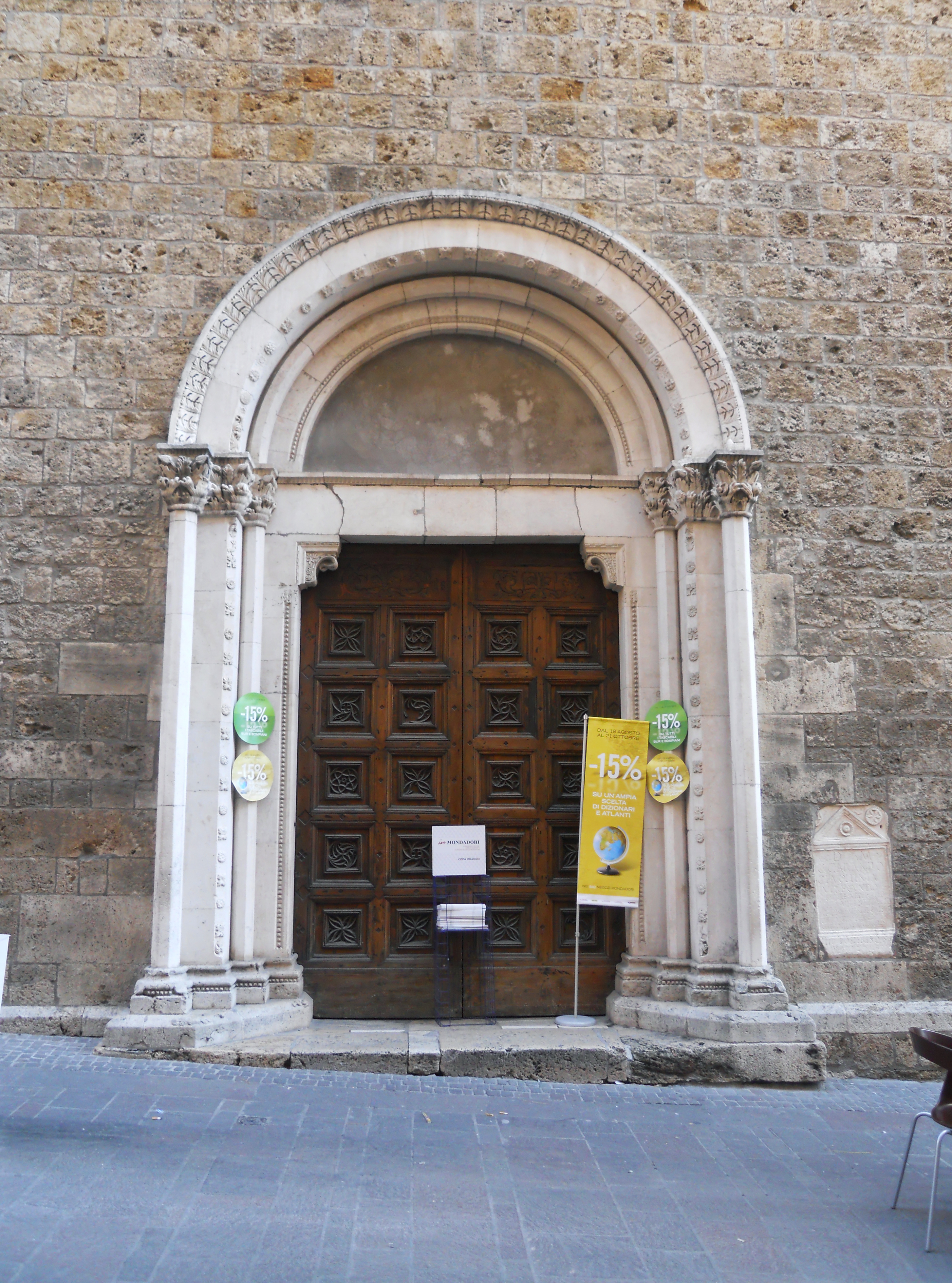 Former St. Peter church - Rieti, Italy